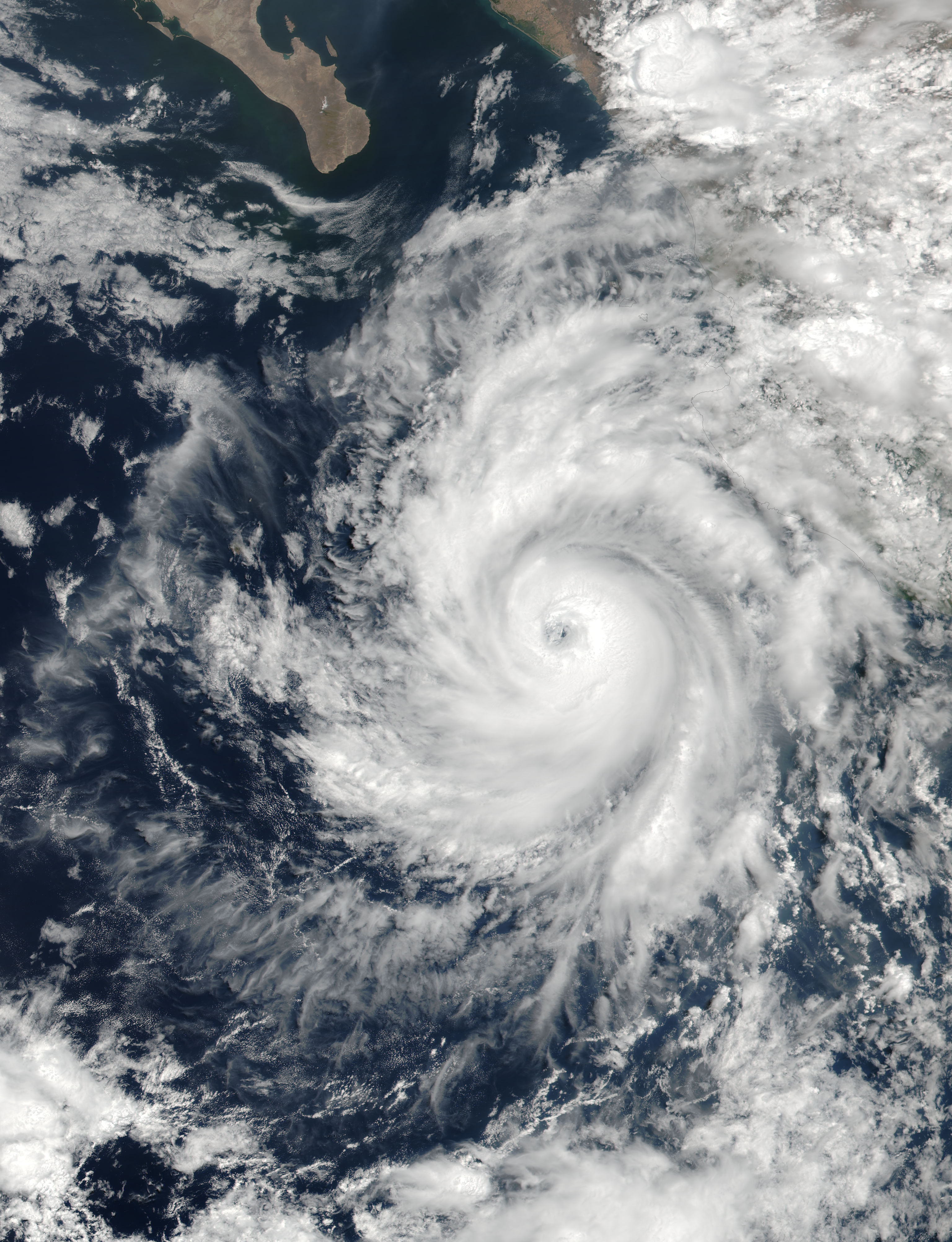 Hurricane Dora (04E) off Mexico